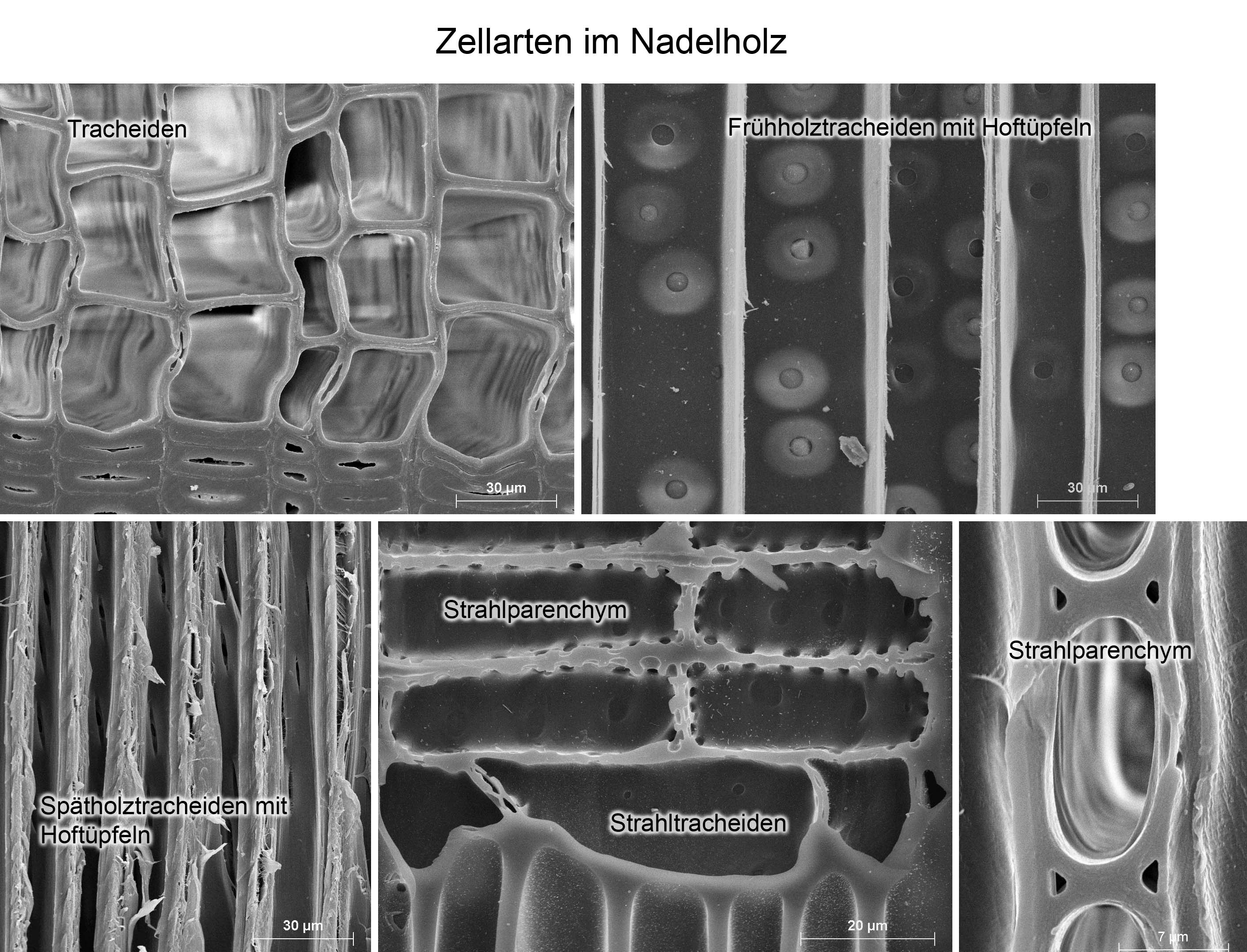 Cell types in softwood